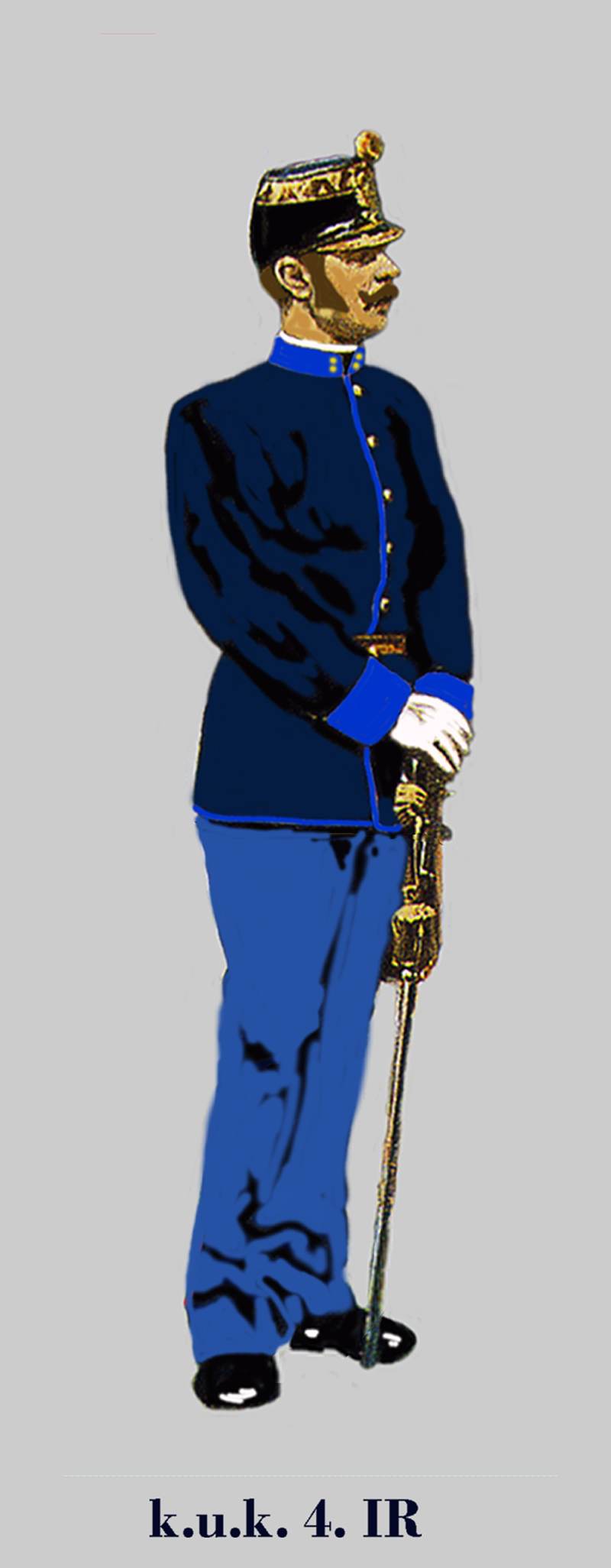 1st lieutenant of the k.u.k. 4th Infantry Regiment (German Infantry) in parade dress 1914